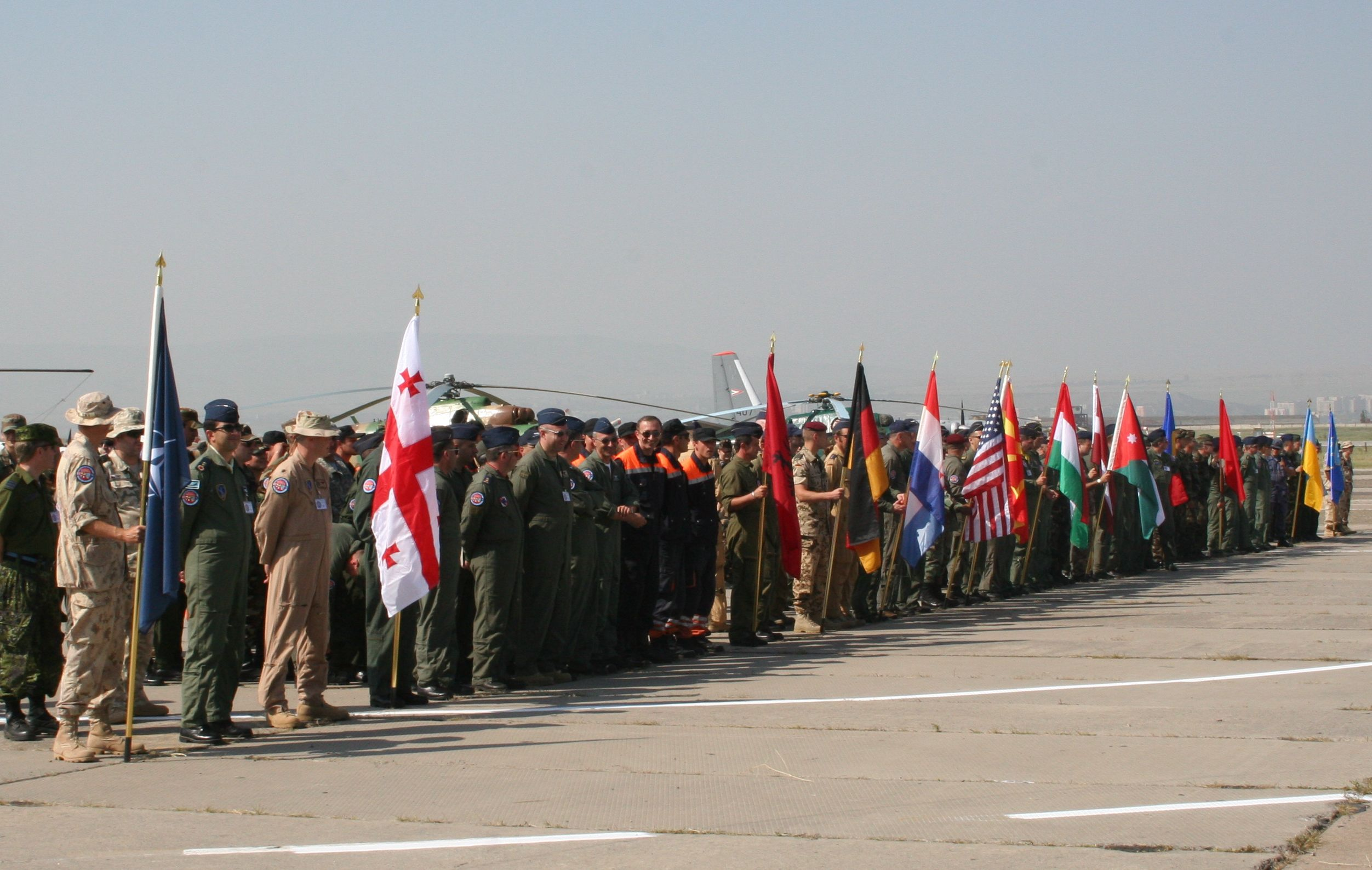 Partnership for Peace "Cooperative Archer" program held in Tbilisi in July 2007.